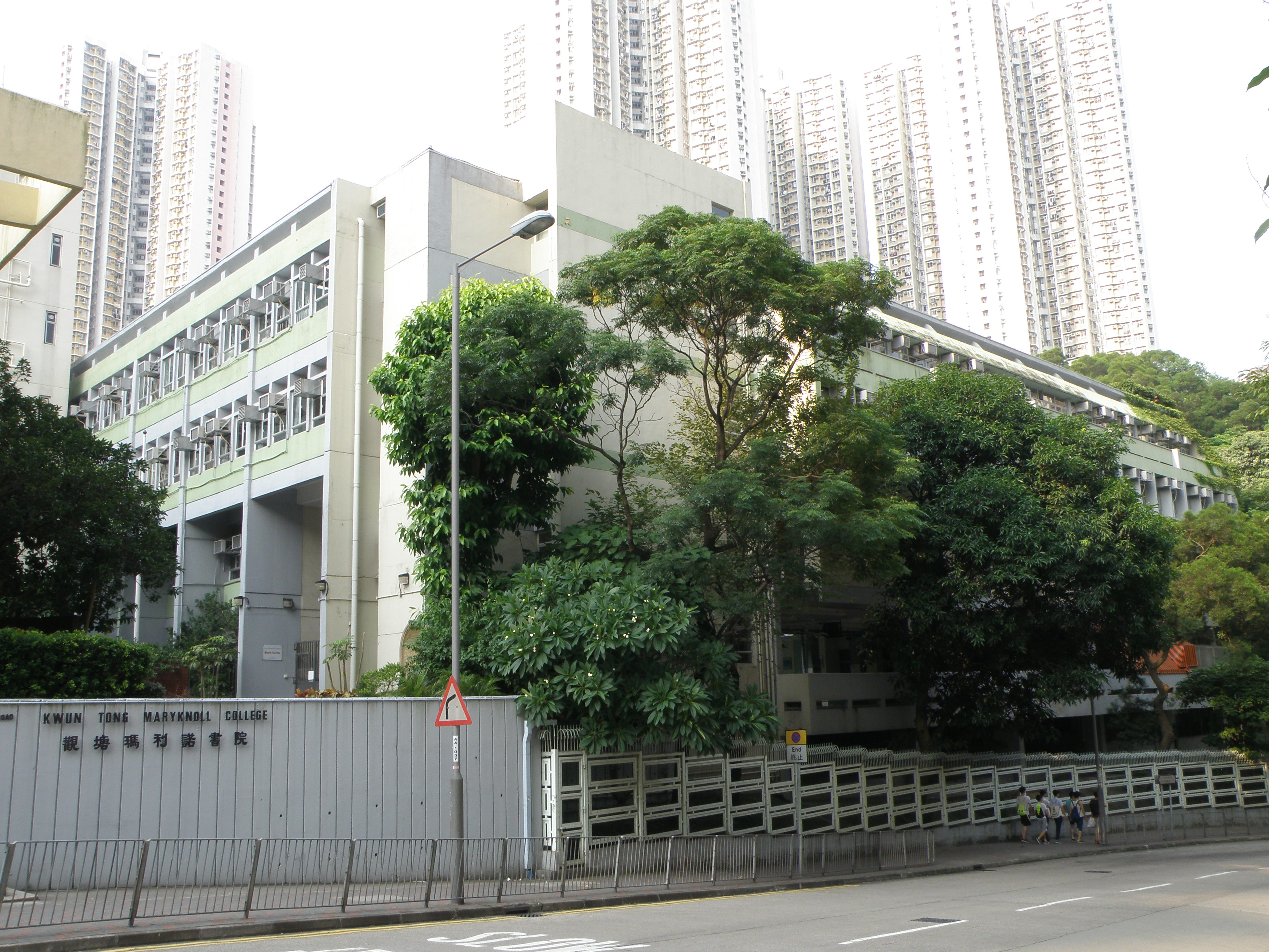 Kwun Tong Maryknoll College in Kwun Tong, Hong Kong.